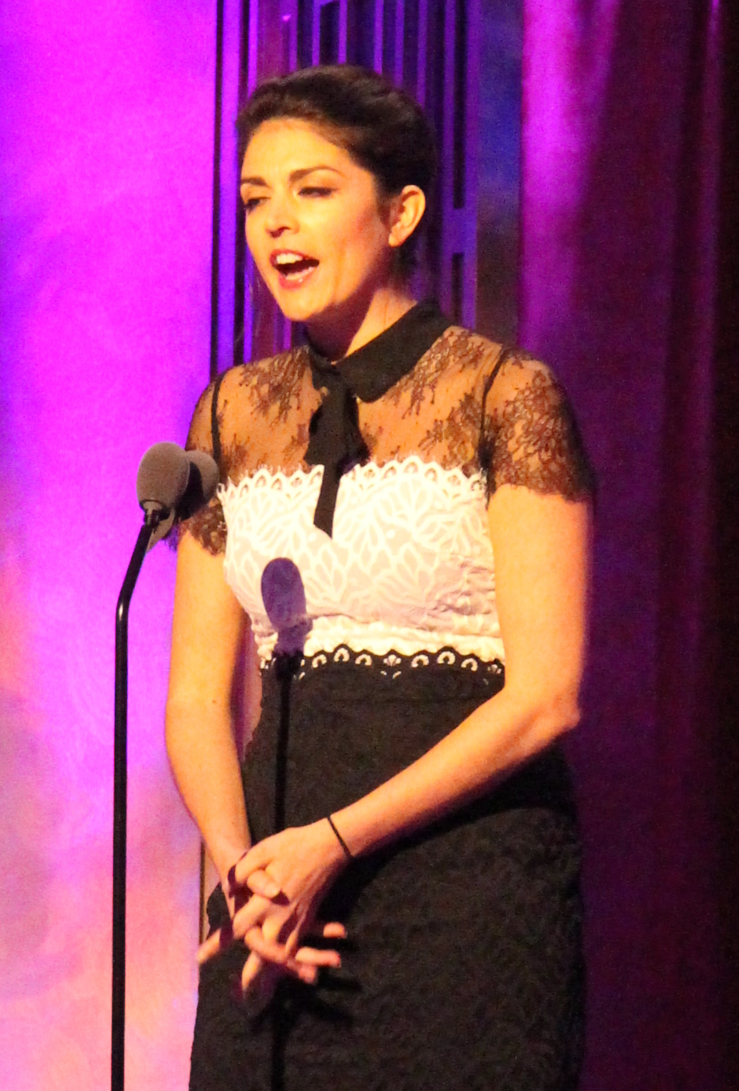 Cecily Strong presents the Peabody to Serial.